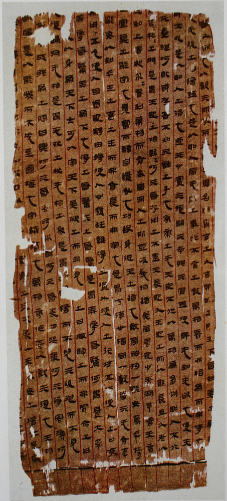 A part of a Taoist manuscript, ink on silk, 2nd century BCE, Han Dynasty, unearthed from Mawangdui tomb 3rd, Chansha, Hunan Province, China. Hunan Province Museum.